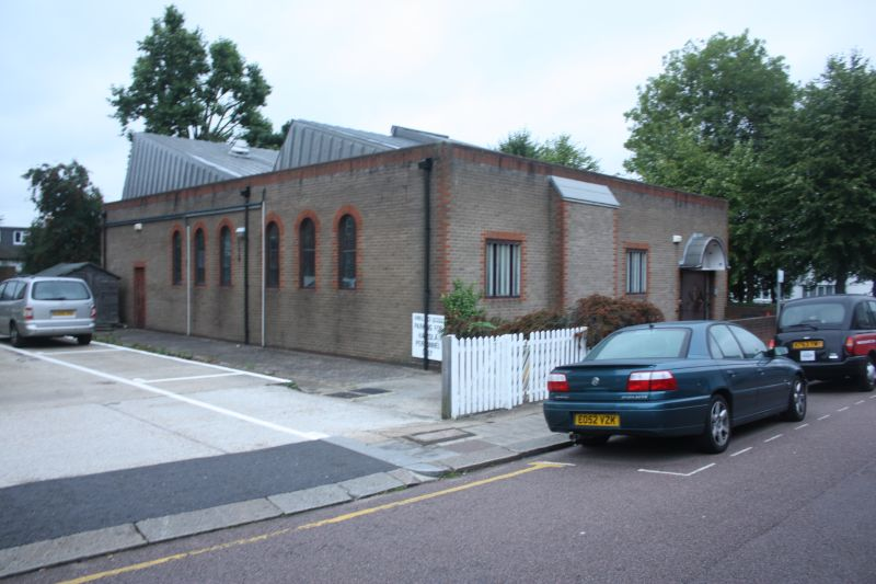 Machzikei Hadath Synagogue, Highfield Road, Golders Green, London NW11, seen from the south